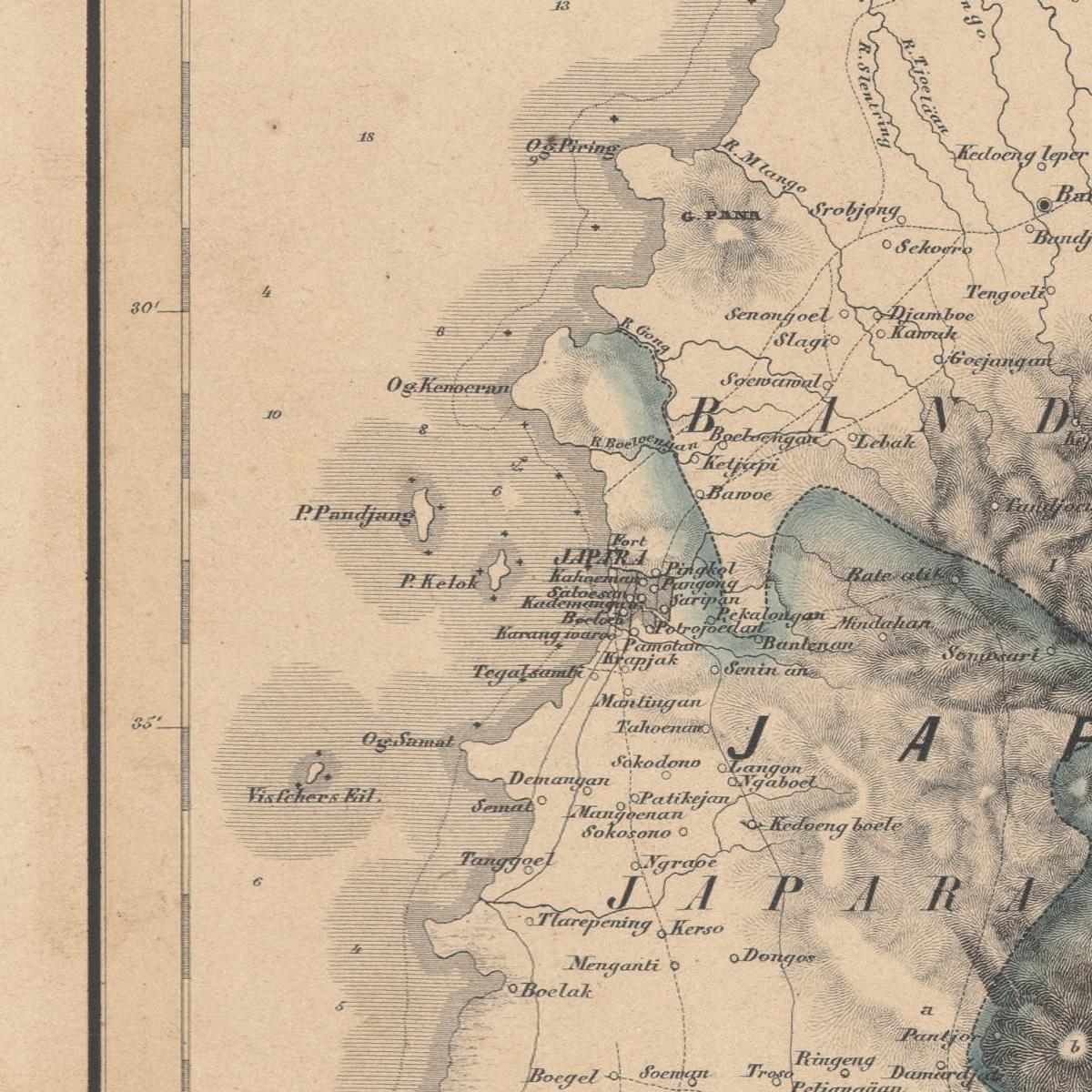 City of Japara from Map of District Japara 1858